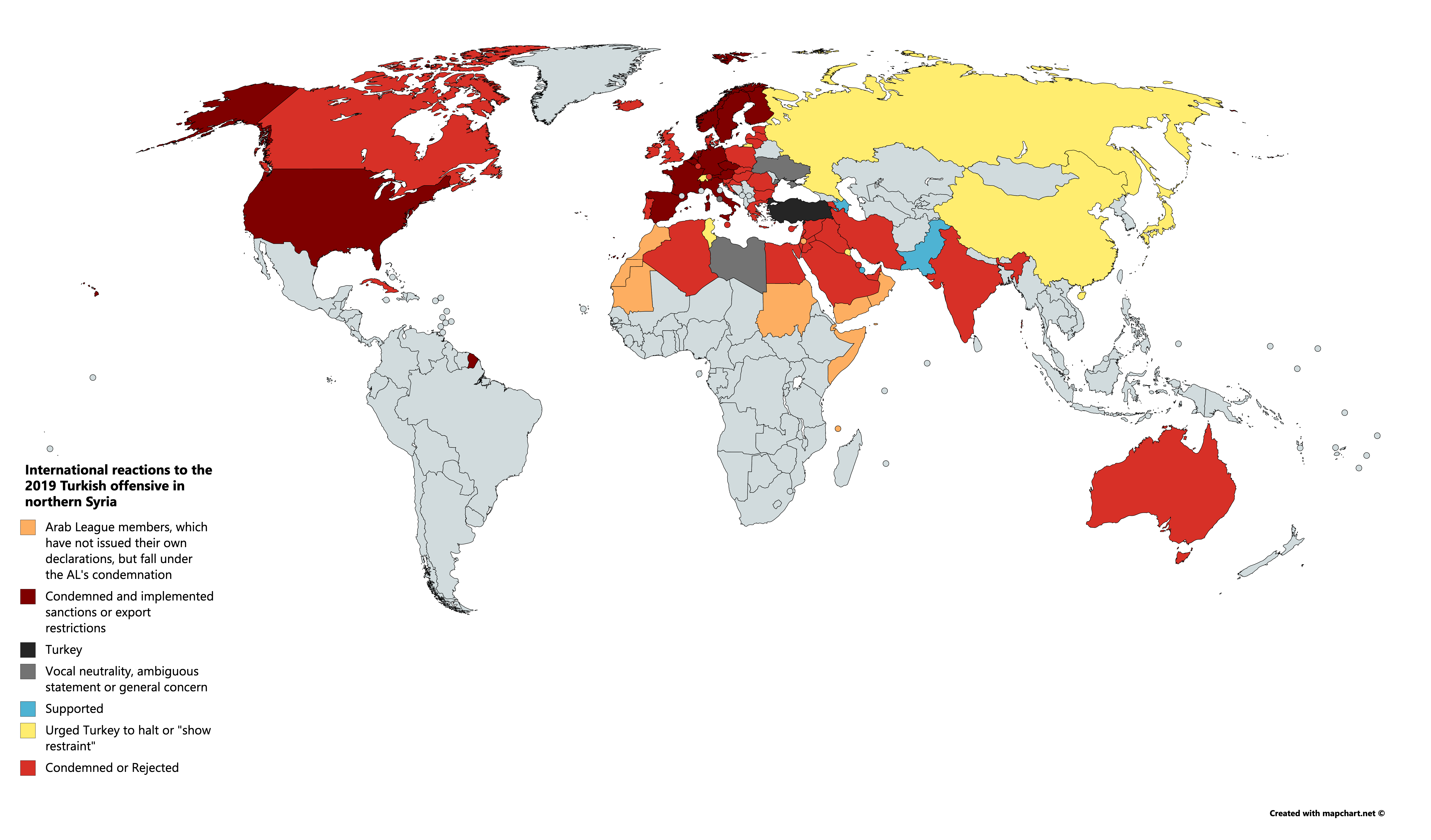 A map depicting the international reactions of UN member states to Turkey's 2019 offensive into northern Syria. The citations for this map can be found at Reactions to the 2019 Turkish offensive into north-eastern Syria.